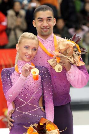 Pair skating of the 2007-2008 Grand Prix of Figure Skating Final - Aliona Savchenko and Robin Szolkowy on the podium